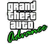 Title taken from opening title screen of Grand Theft Auto: Advance, non-PD art removed